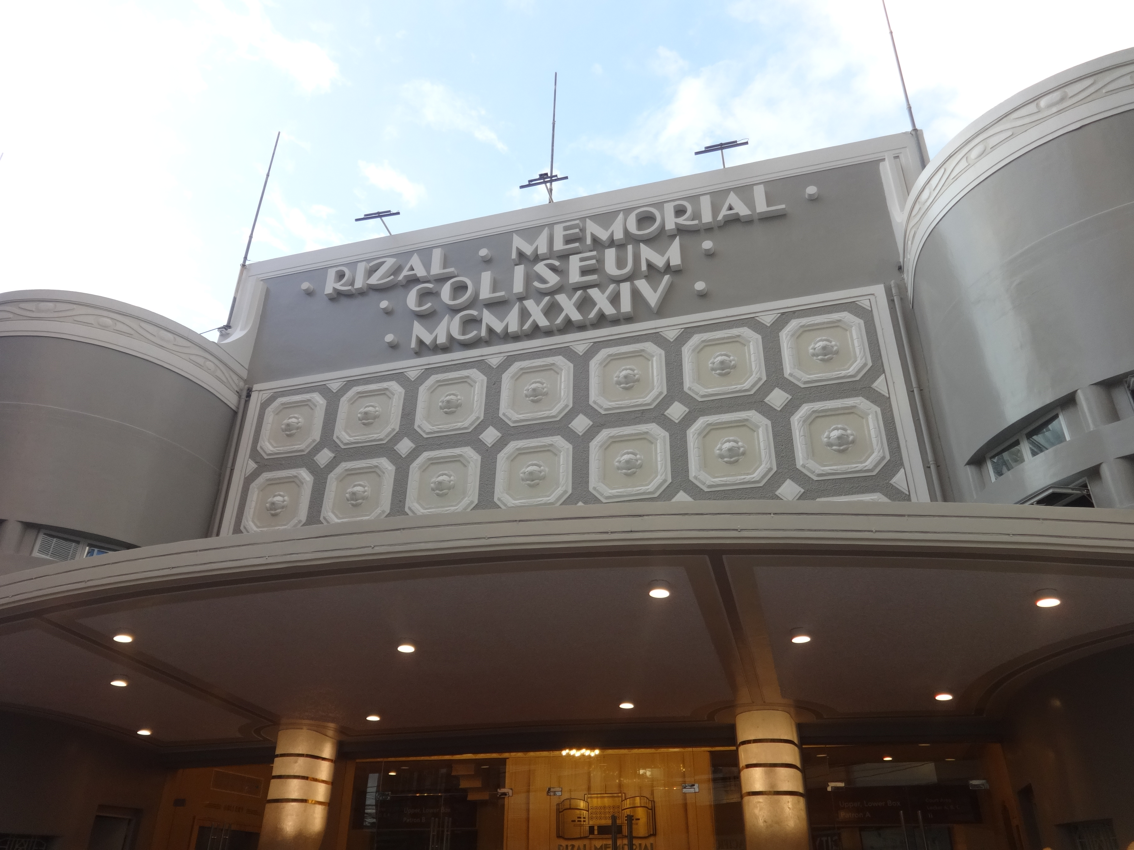 Rizal Memorial Coliseum in Malate, Manila